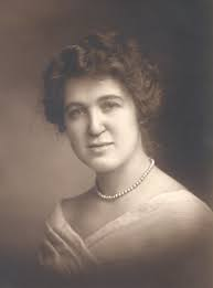 Mae Bacon